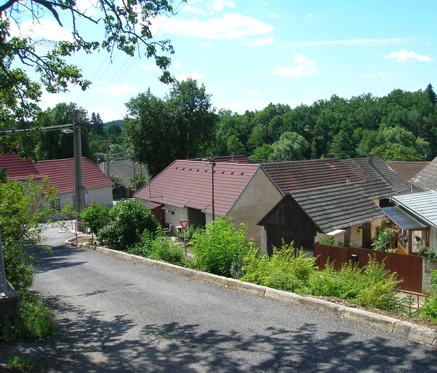 Třebíč-Sokolí. From above